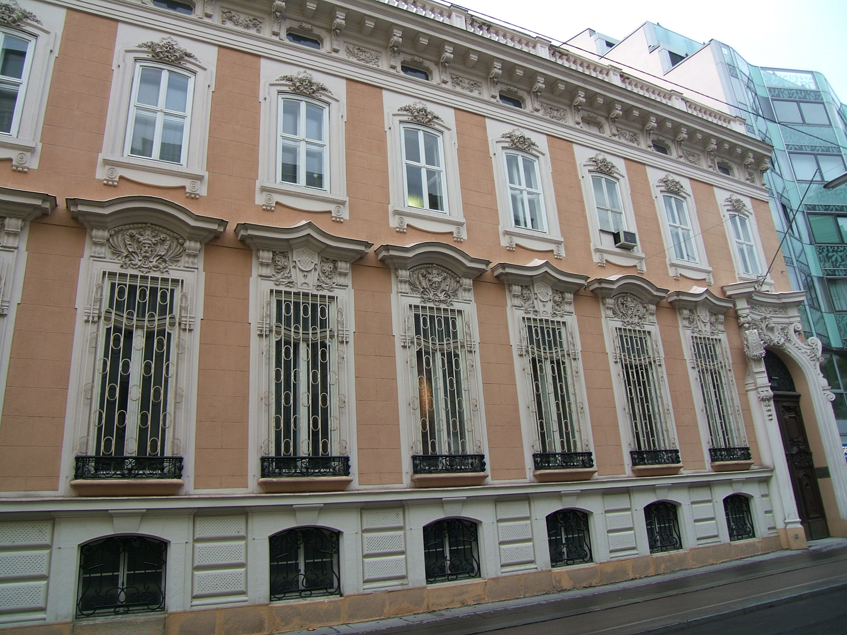 Palais Kranz in Vienna 4th district, Argentinierstraße 25-27